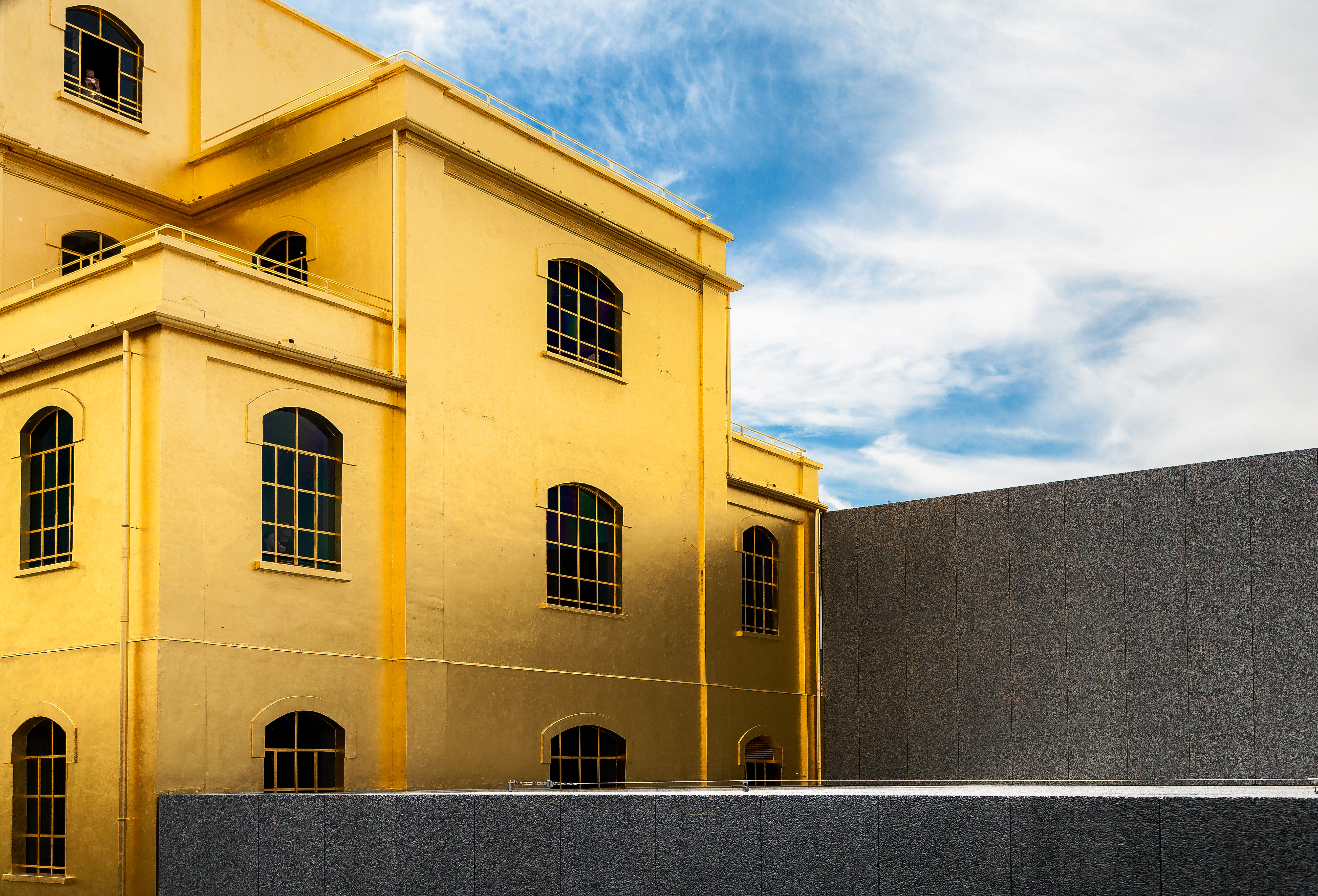 Fondazione Prada, Milano, Italy